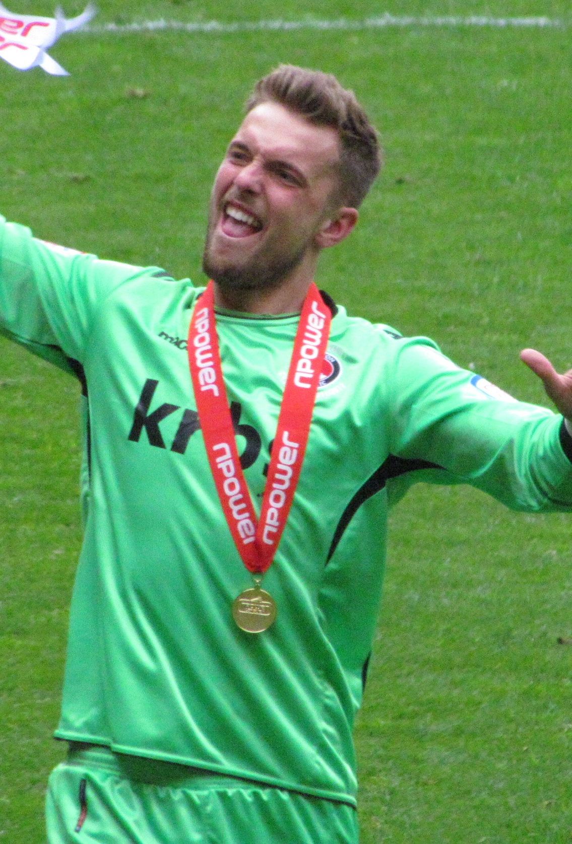 Ben Hamer after playing for Charlton Athletic against Hartlepool United at The Valley, London on 5 May 2012